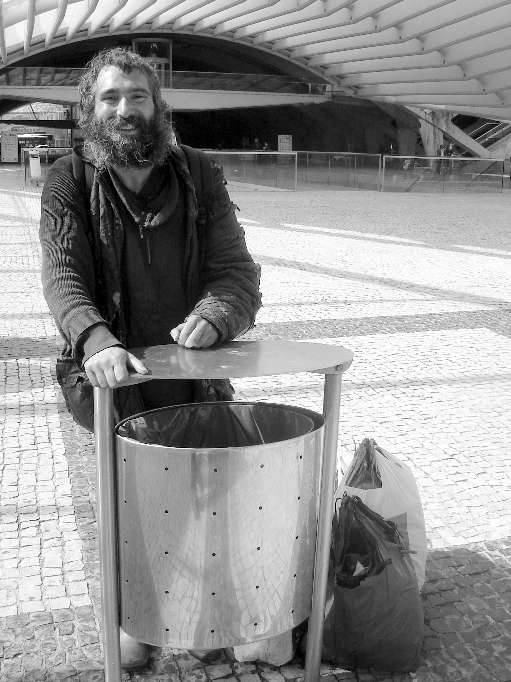 Gare do Oriente train station, Lisbon, Portugal